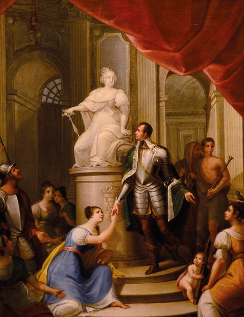 "Allegory to the Establishment of the Academy of Fine Arts" (1840), by Norberto José Ribeiro. It is an allegorical painting, representing the establishment of the Academy of Fine Arts in Lisbon and Oporto. In an interior palace setting, in classical architecture, one can see, in the centre of the composition, a statue of Queen Maria II, over a plinth and surrounded by allegorical characters, both sitting and standing, dressed in the fashion of the Antiquity, representing the classical disciplins of the Fine Arts. To the right, standing and clad in armour, an allegory of Passos Manuel, Minister of the Kingdom, who signed the decrees that established the Academy.